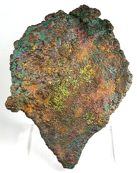 Hematite Locality: Crowders Mountain Iron Prospect, Kings Mountain District, Gaston County, North Carolina, USA (Locality at ) Size: 19.7 x 14.2 x 6.2 cm. Collector Harold Urish bought this in a rock shop while traveling, in 1975. It is a very attractive, large, rolling matrix of rock coated with botryoidal hematite. Oxidation has given the hematite a varied surface color composition, and it is bright and metallic looking, making for a very dramatic display specimen. From the well-known Tucson collection of 40-year collector, Harold Urish.